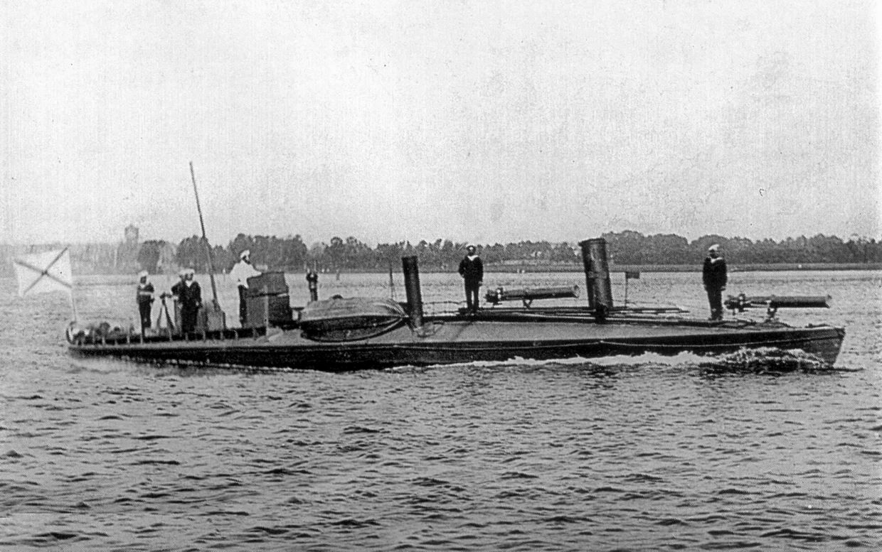 Imperial Russian small torpedo boat No. 61 (former Konoplianka).